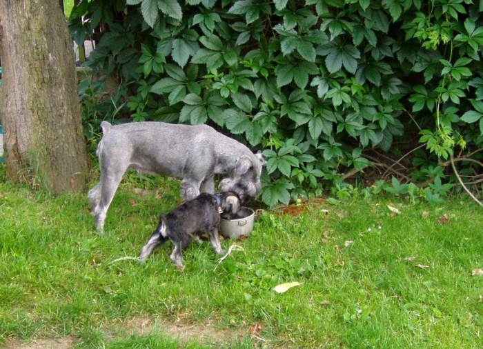 Schnauzer Puppy And Adult